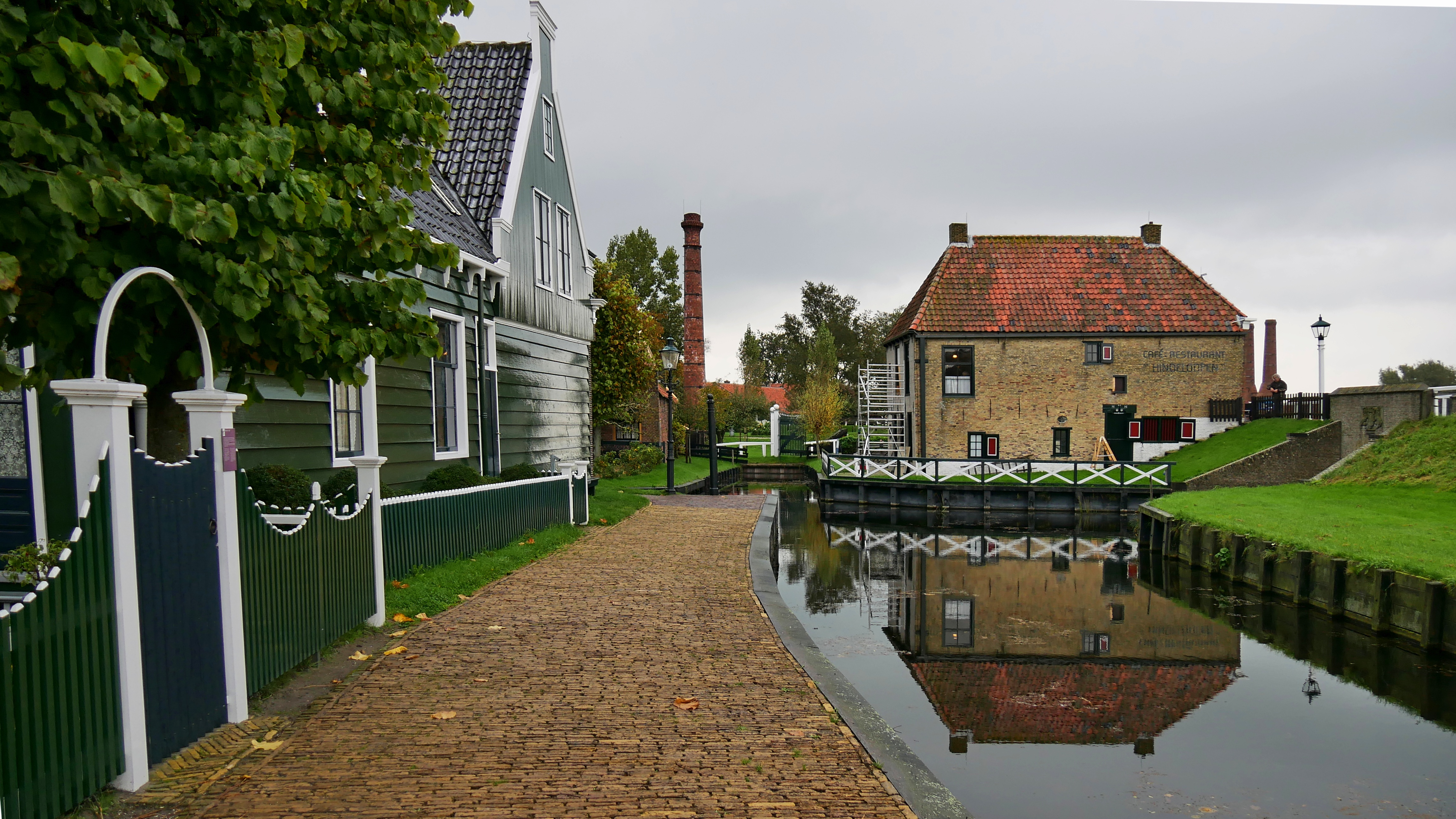 Chanel and museum's cafe